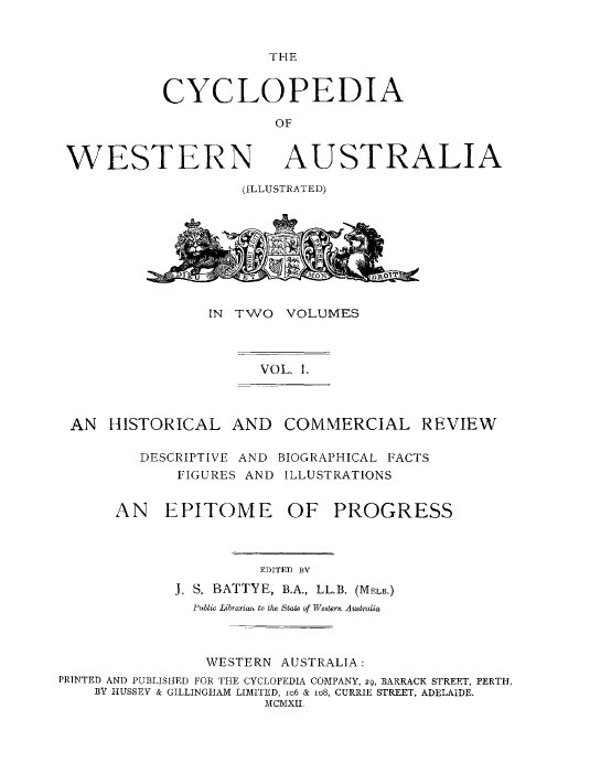 Cyclopaedia of Western Australia, frontispiece